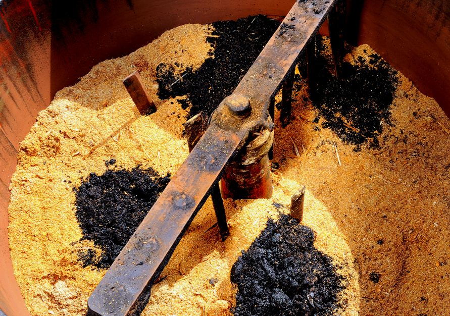 image used in the co-processing wiki